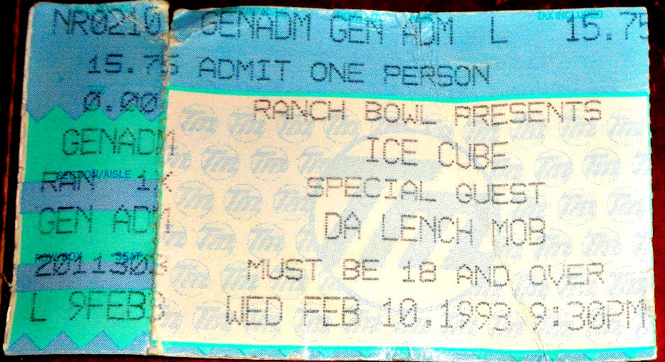 A ticket for an Ice Cube and Da Lench Mob concert at the Ranch Bowl in Omaha, Nebraska on February 10, 1993.